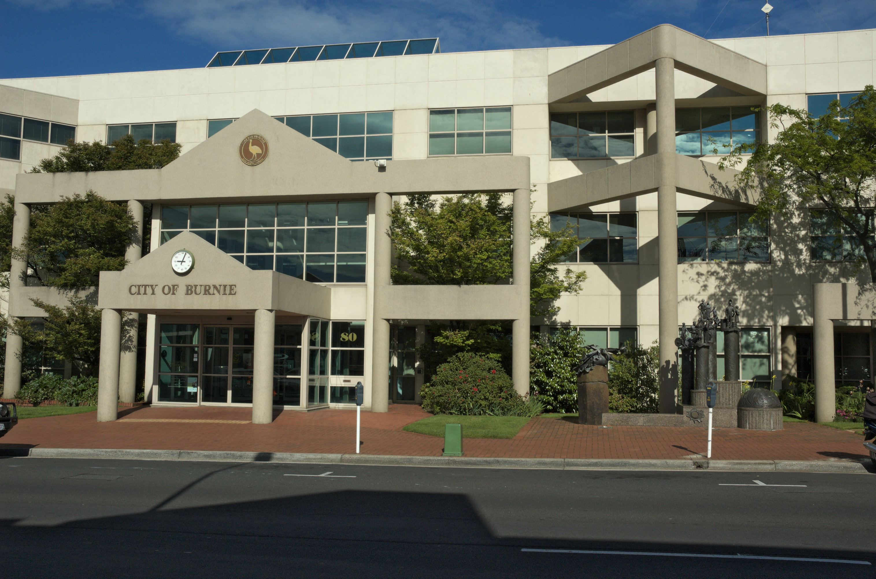 Burnie City Council Offices, Wilson Street, Burnie.